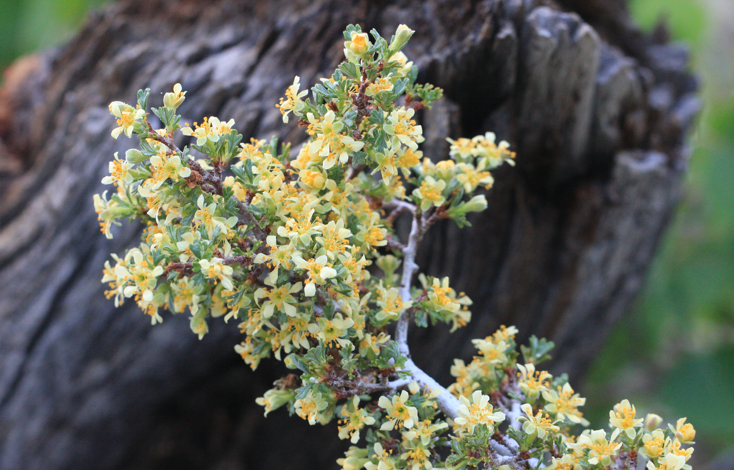 Bitterbrush or antelope bush (Purshia tridentata), closeup of branch with flowers and leaves. South side of Lake Sabrina, middle fork of Bishop Creek, Mono County California.